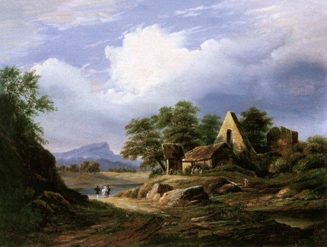 Excursionist in Italian Countryside